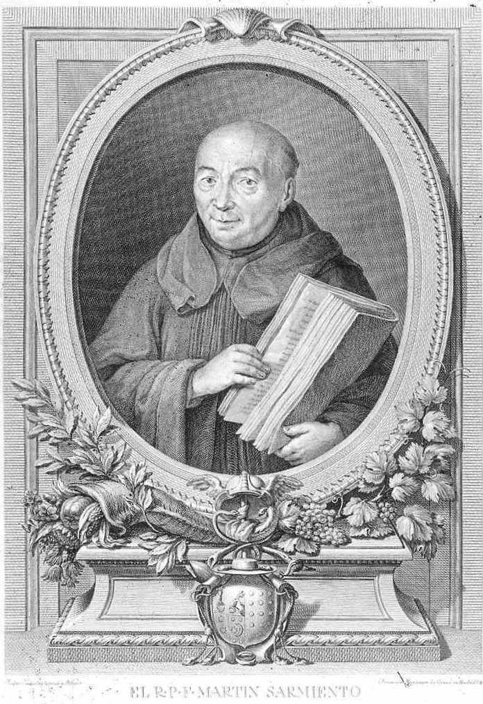 Portrait of Fray Martín Sarmiento